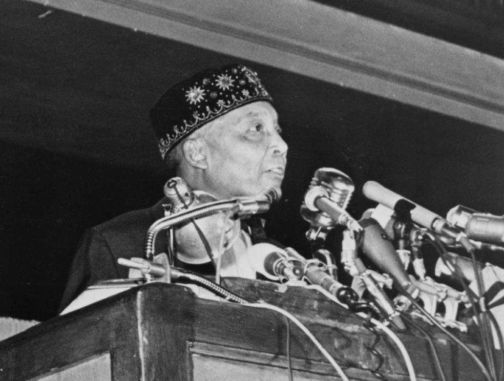 detail of a photo where Elijah Muhammad addresses followers including Cassius Clay / World Telegram & Sun photo by Stanley Wolfson.